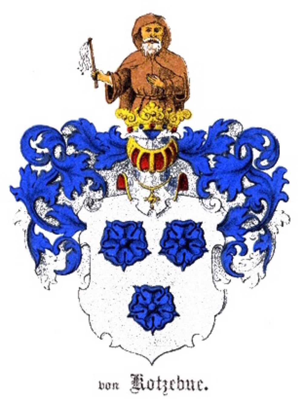 Kotzebue family arms. In the crest, the man in his dexter hand displays a fue, a Samoan fly whisk that is one symbol of an orator chief.